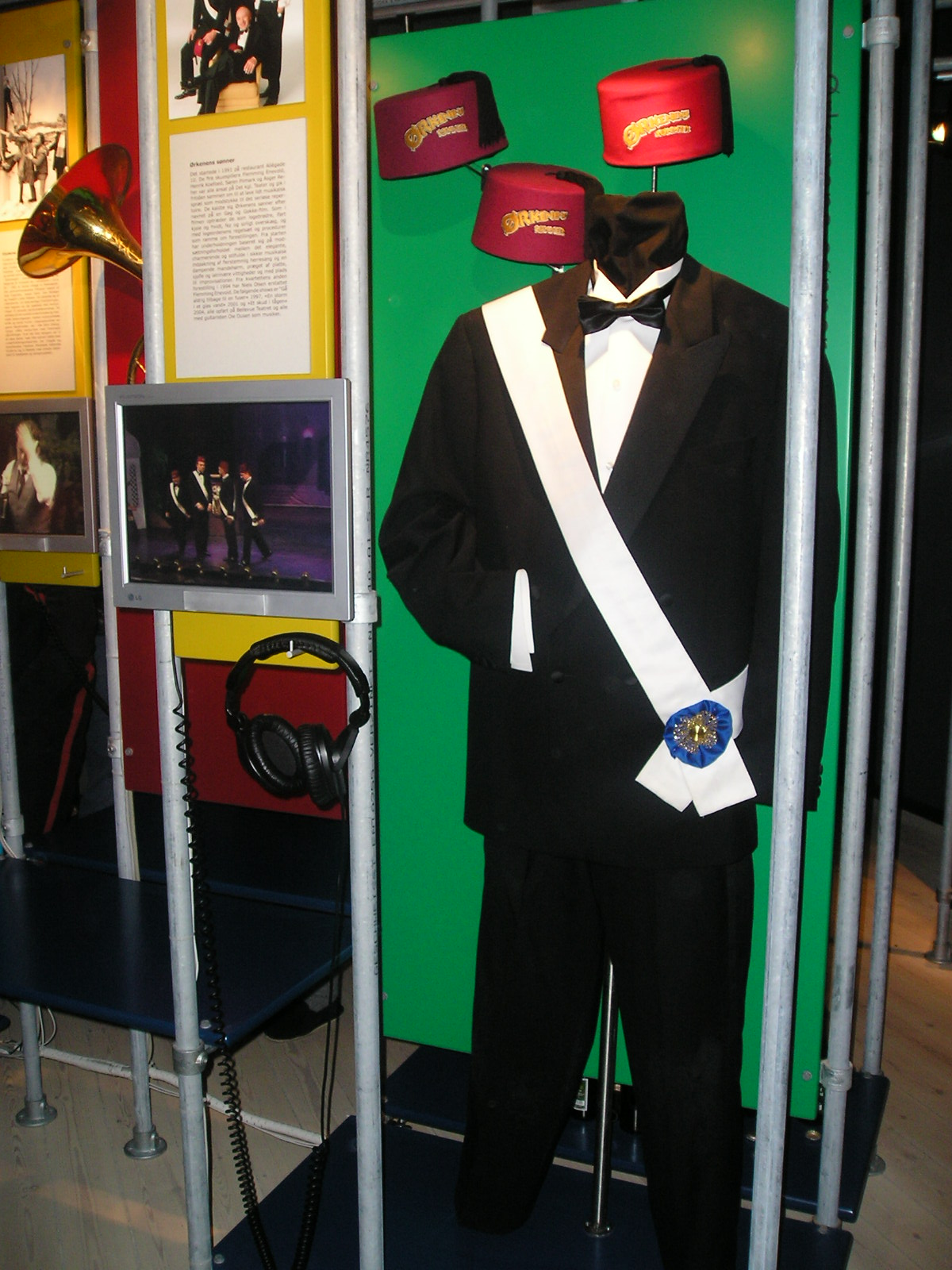 Revymuseet (The Revue Museum) in Copenhagen. Exhibition case with the comical quartet Ørkenens Sønner (Sons of the Desert)